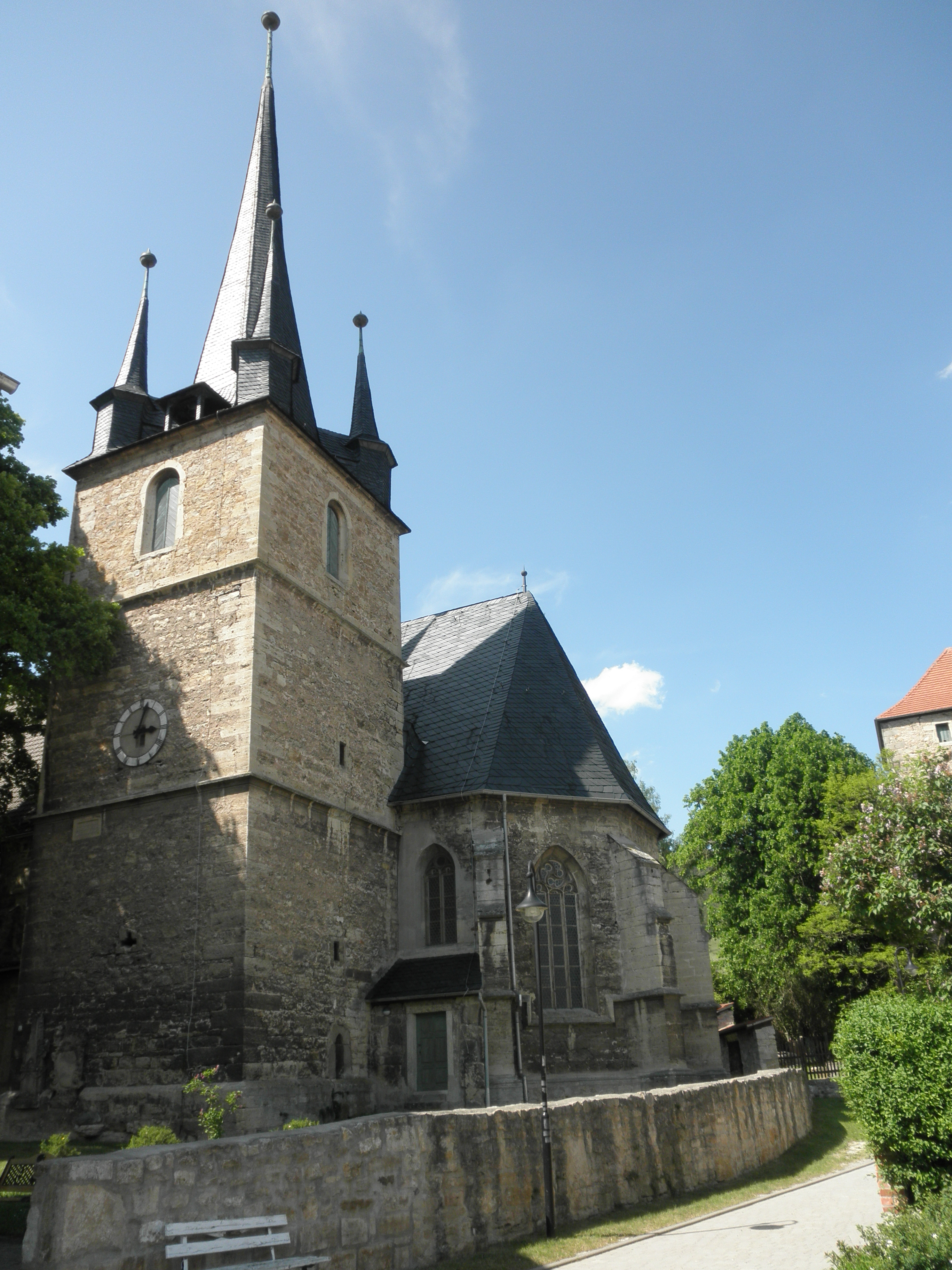 Church in Reinstädt in Thuringia